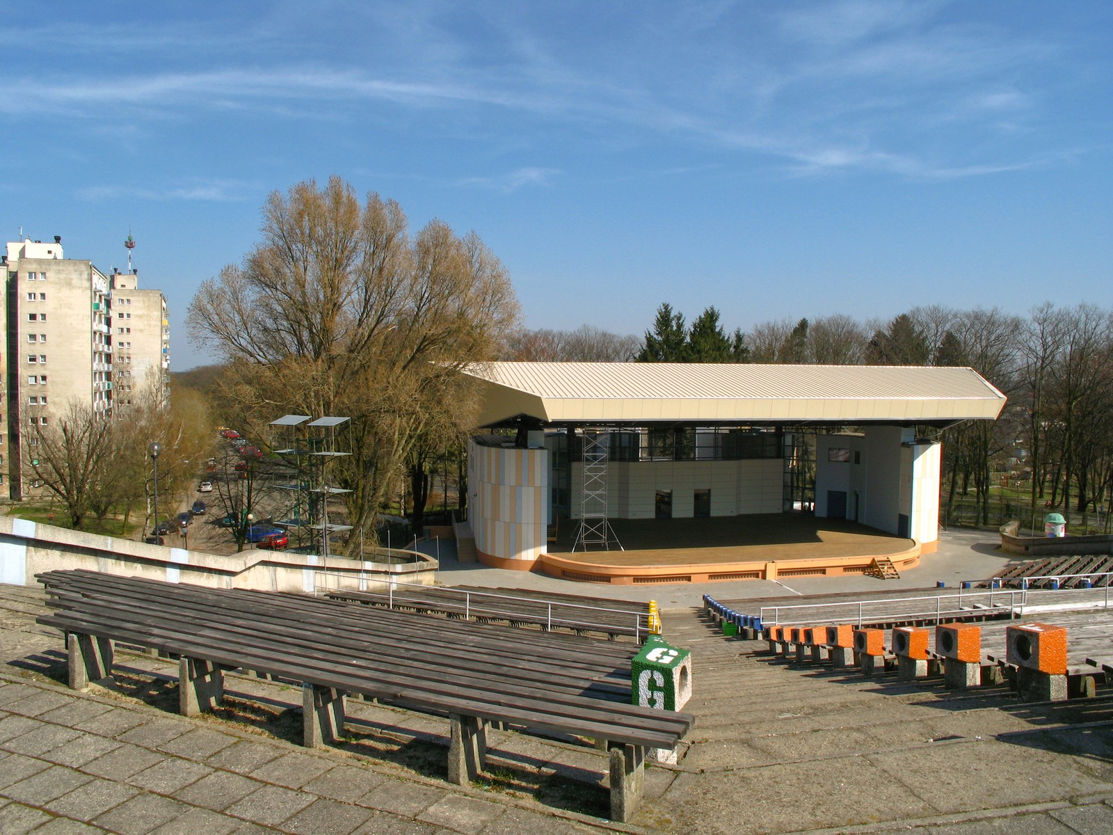 city amphitheatre